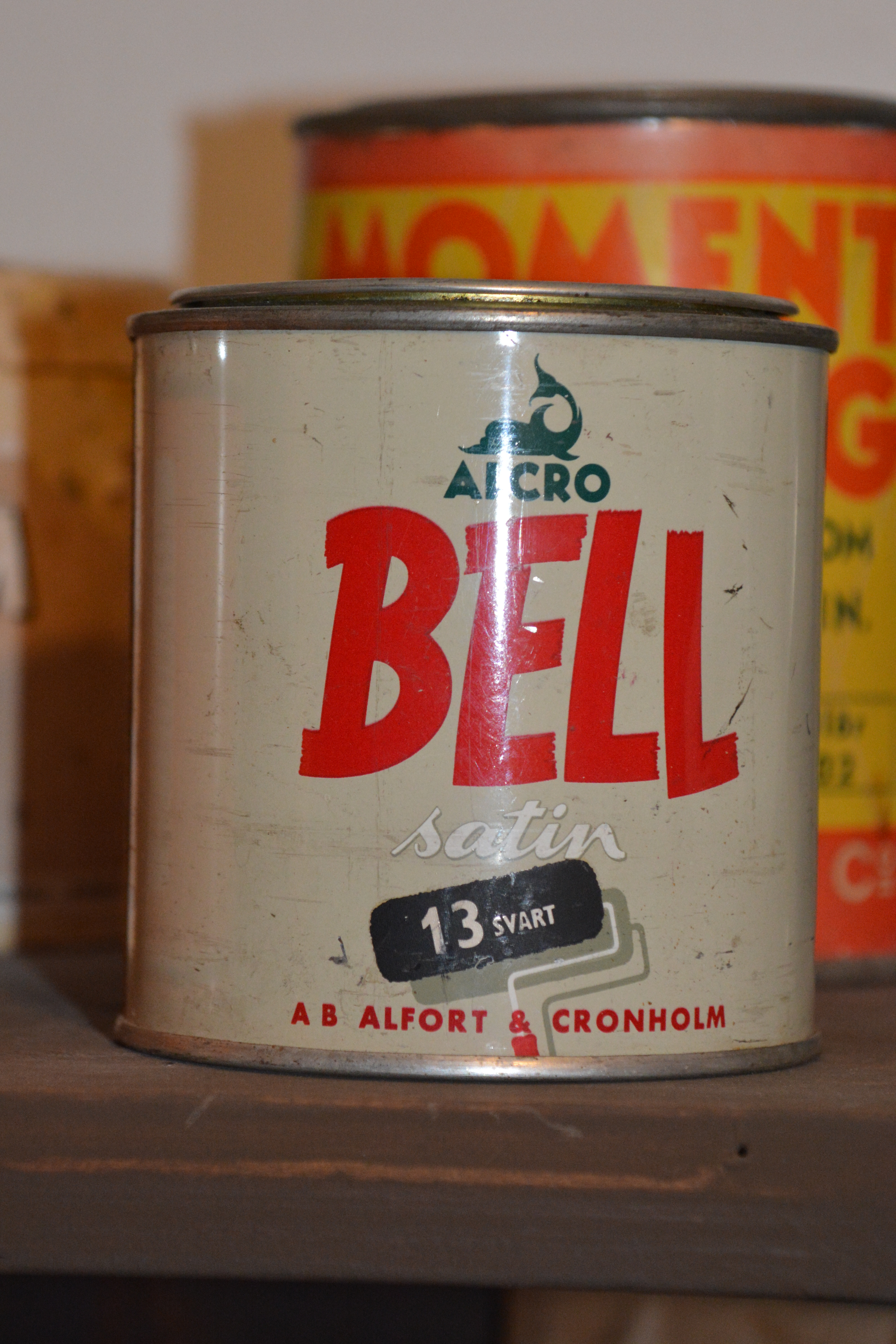 Paint from Alcro, Sweden